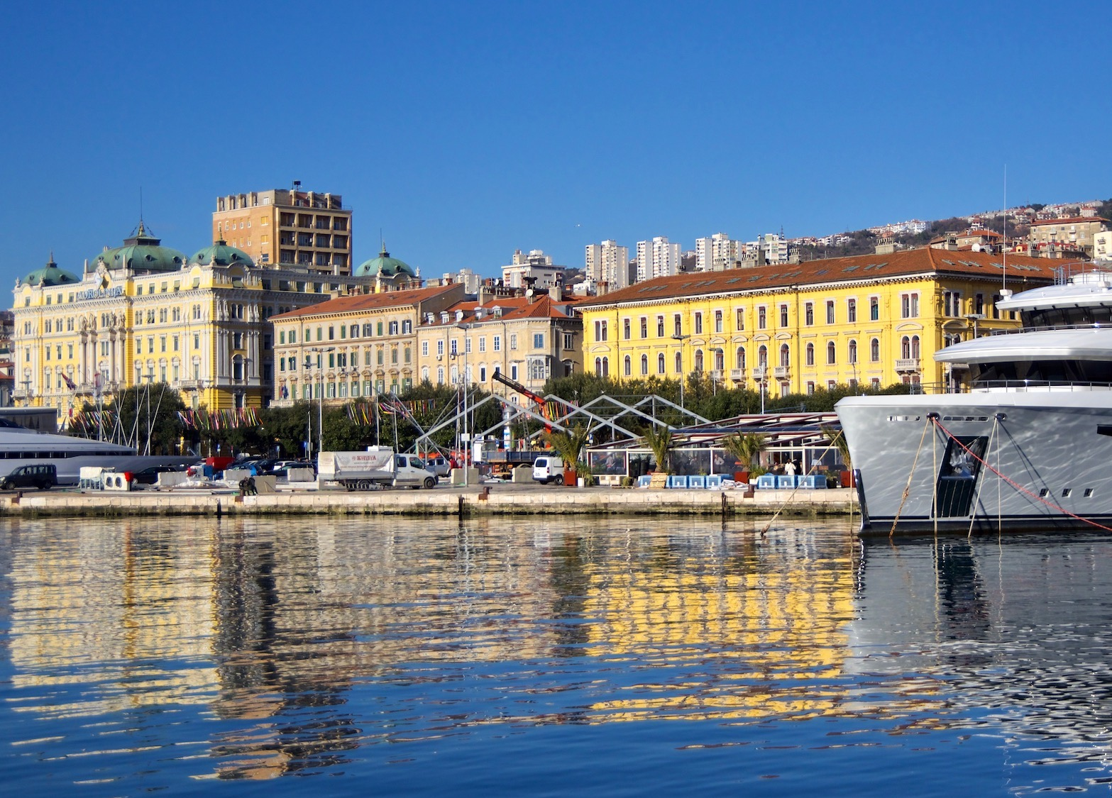 Riva and Port in Rijeka